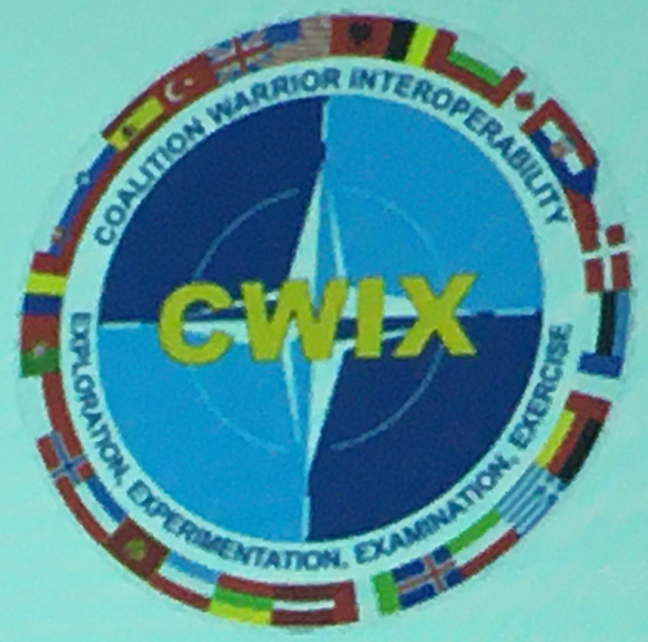 Logo of CWIX Exercise